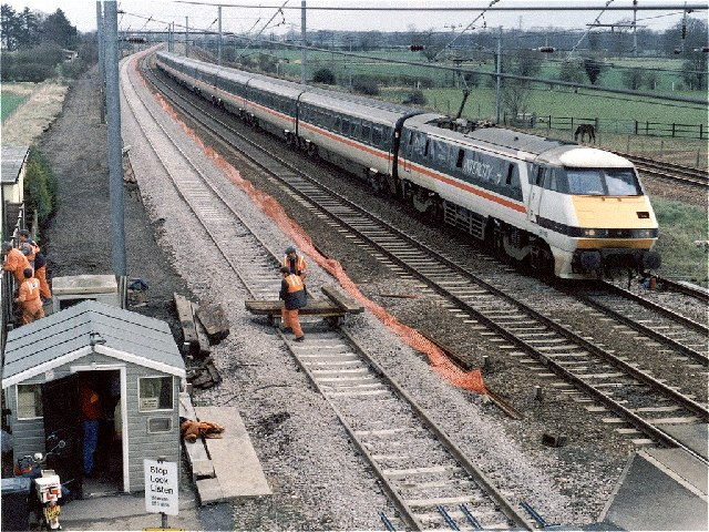 91019 heading north out of Peterborough on the East Coast mainline. Picture taken from Woodcroft Crossing Footbridge. Tracklaying in progress.